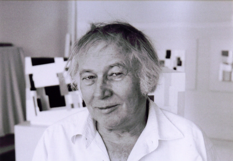 Otto Nemitz, painter from Cologne, 2004 in his studio in Colognes' town district Niehl.